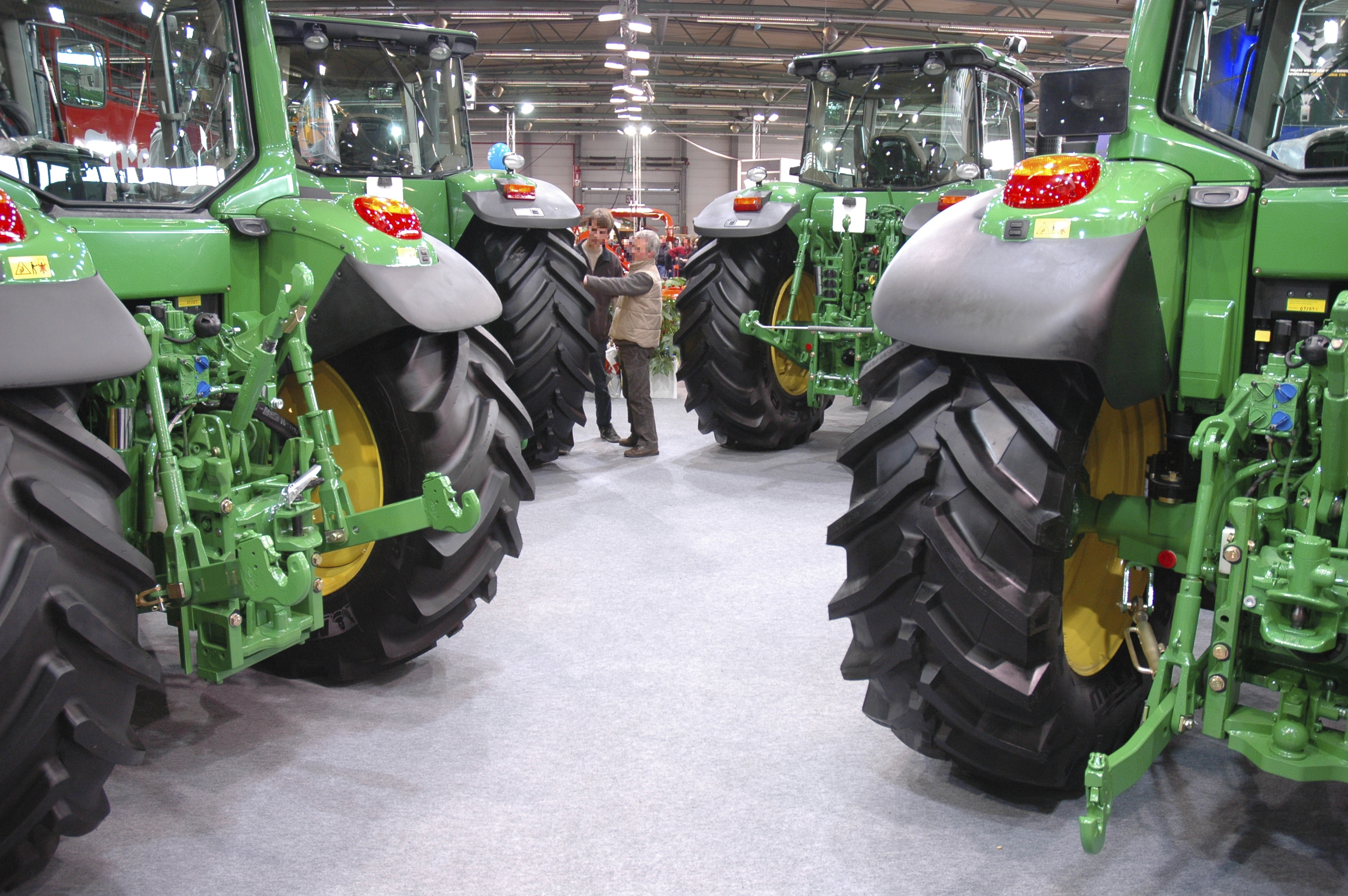 John Deere tractors presented by Cofabel on Agriflanders 2007